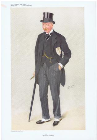 Caricature of Lord Barrington Vanity Fair 28 Apr 1909. Caption read "Lord Barrington"